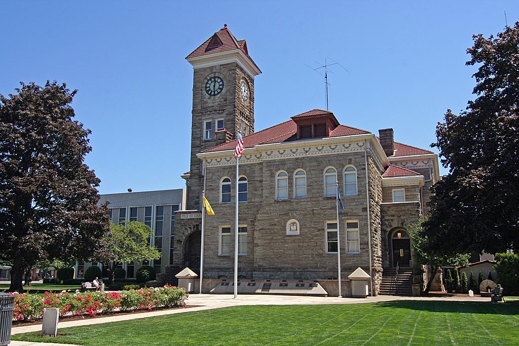 Polk County Courthouse, Dallas Oregon.